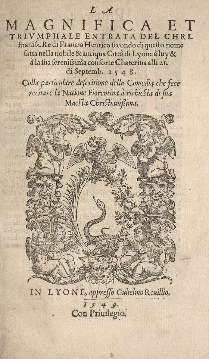 Title page for La magnifica et triumphale entrata del christianiss. re di Francia Henrico secondo di questo nome, 1549, by Maurice Scève (c. 1501–c. 1564). Artwork attributed to B. Salomon. Full book digitized. Courtesy Typ 515.49.772, Houghton Library, Harvard University